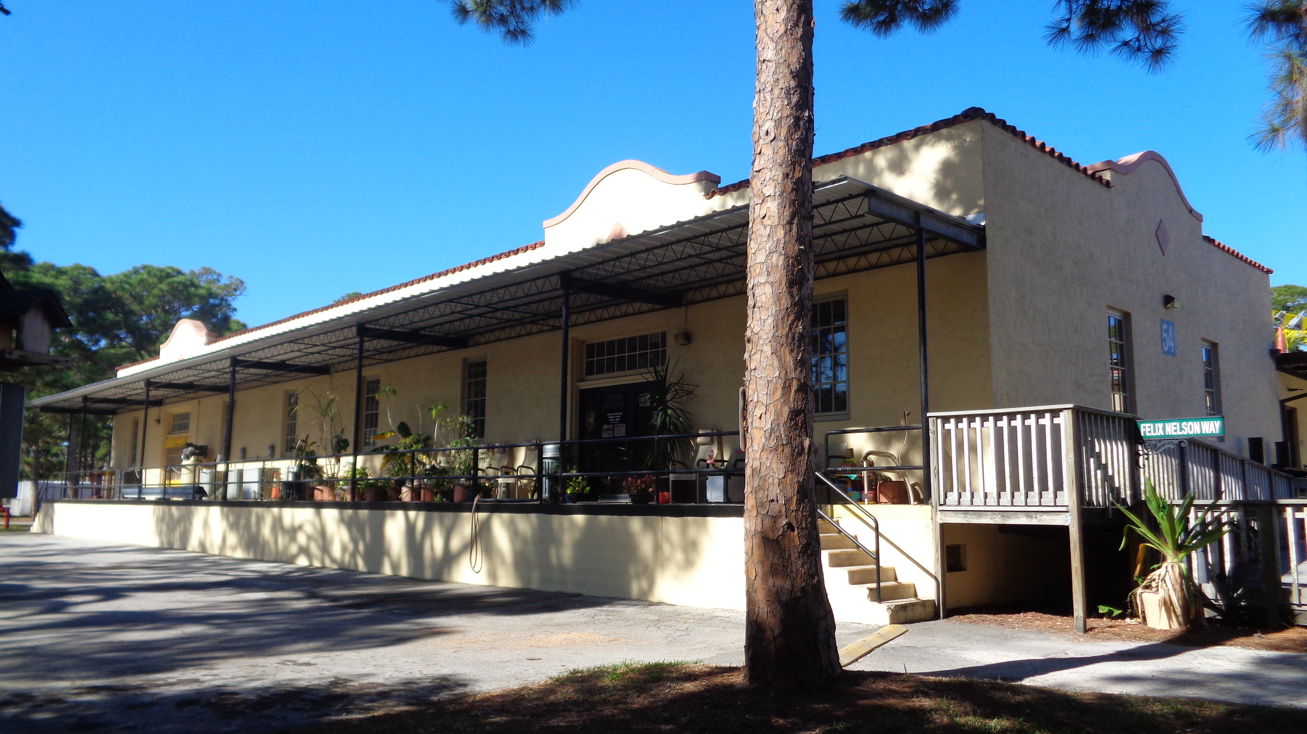 South-facing side of Seaboard Air Line Railroad depot built in 1933 in Bay Pines, Florida, now part of Building 11 of the Bay Pines VA Home & Hospital complex and used as the VA police station.